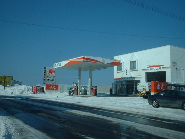 The gas station at the northernmost tip in Japan.